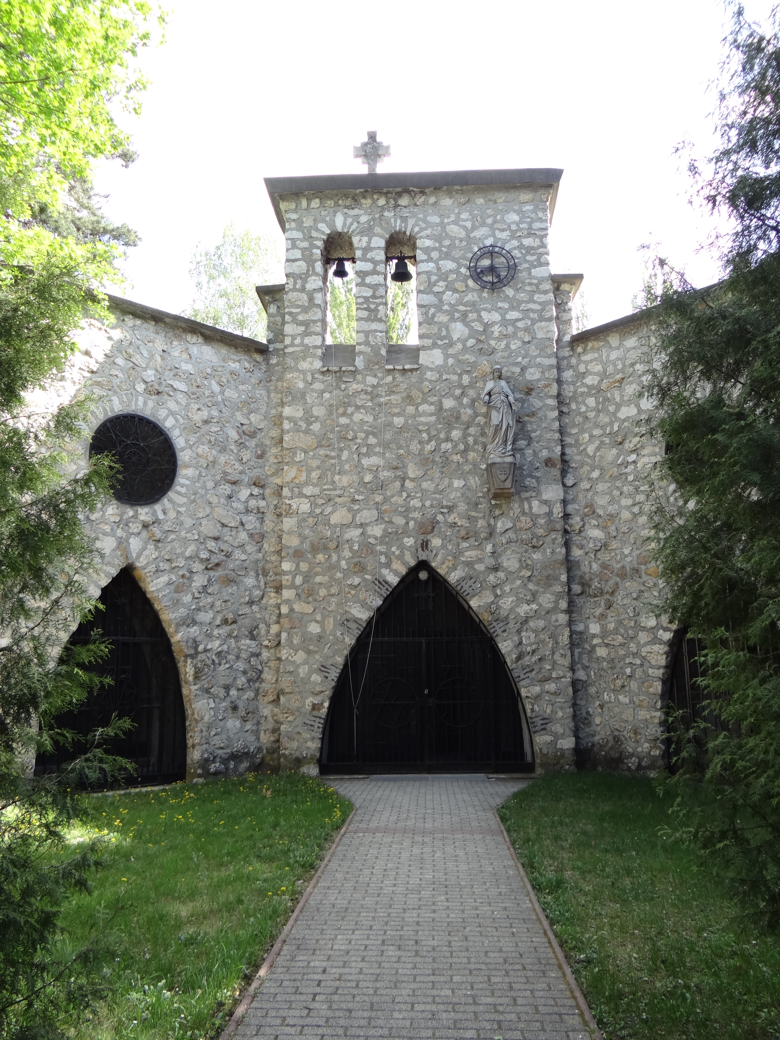 Rock Chapel, Miskolctapolca, Hungary